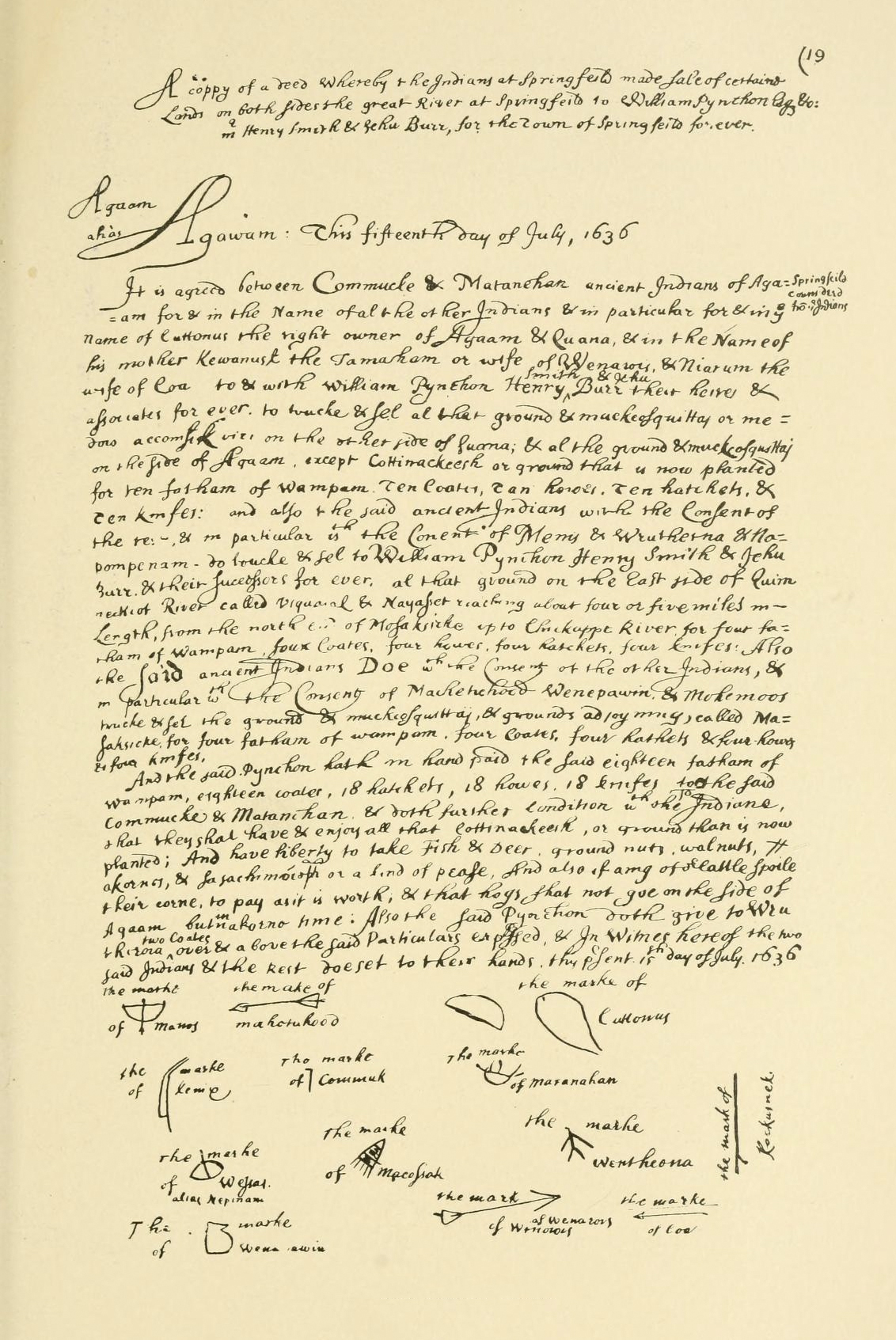 The deed between colonists William Pynchon, Henry Smith, and Jehu Burr, and native tribesmen Menis, Machetuhood, Cuttonas, Kenis, Commucke, Matanchan, Wess (aka Nepinam), Macossak, Wrutherna, Kockuinek, Winnepawin, Wenawis and Coa, for land to the east and west of the Connecticut River that would be known as the Agawam Plantations or Springfield, Massachusetts. The tribesment were paid with 18 fatham of Wampum, coats, hatchets, hoes, and knives. The deed granting the retention of the tribesmen for the use of crops that they had planted, as well as the fish, deer, and foraged berries and nuts. Provisions also calling for the exchange of the value of any of the corn of their spoiled by colonist cows.